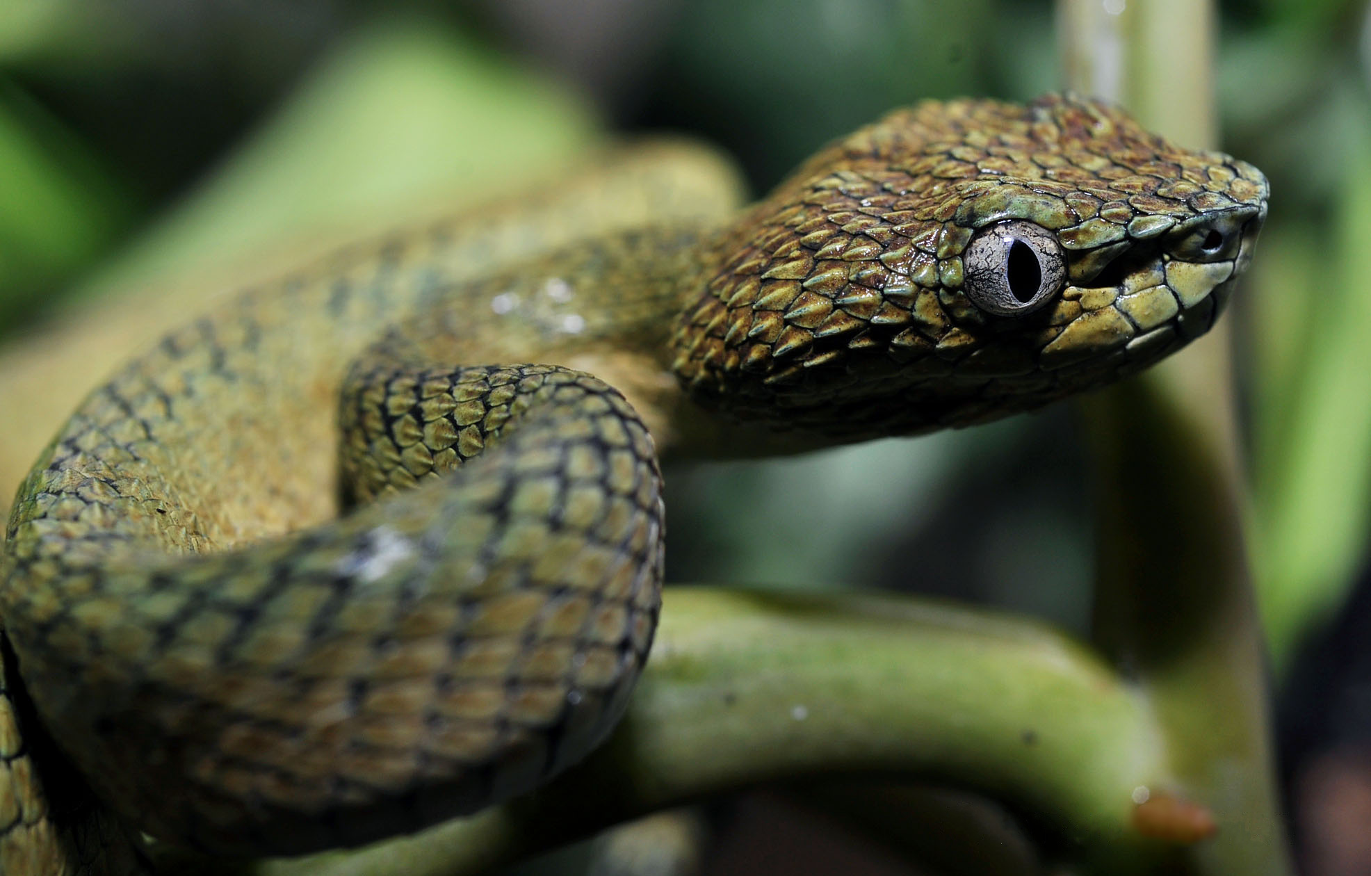 T. philippinensis